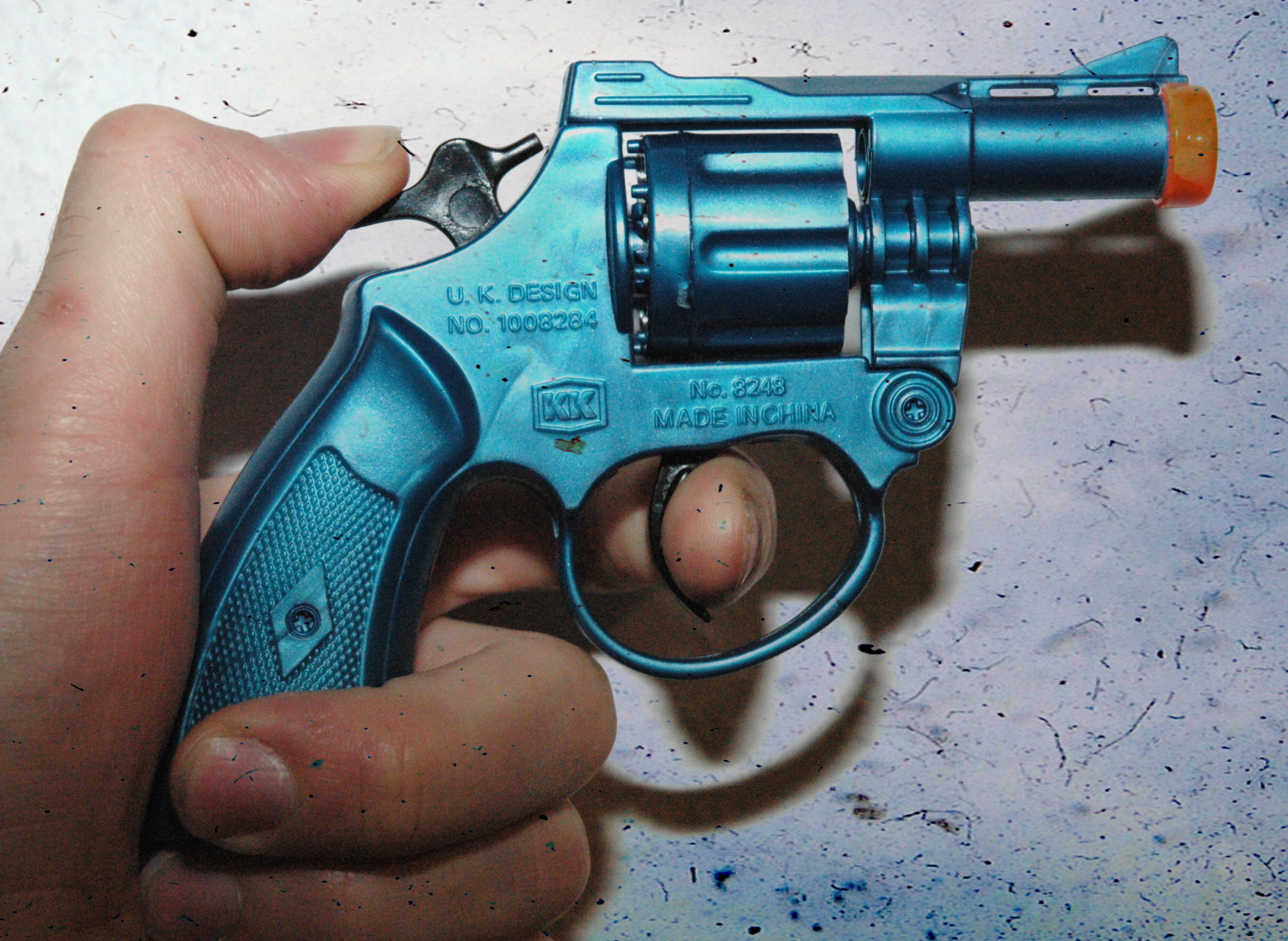 Day 347 / 366 Friday I got a cap gun. One of the bands threw them into the audience. I might go and hold up the post office on Monday.